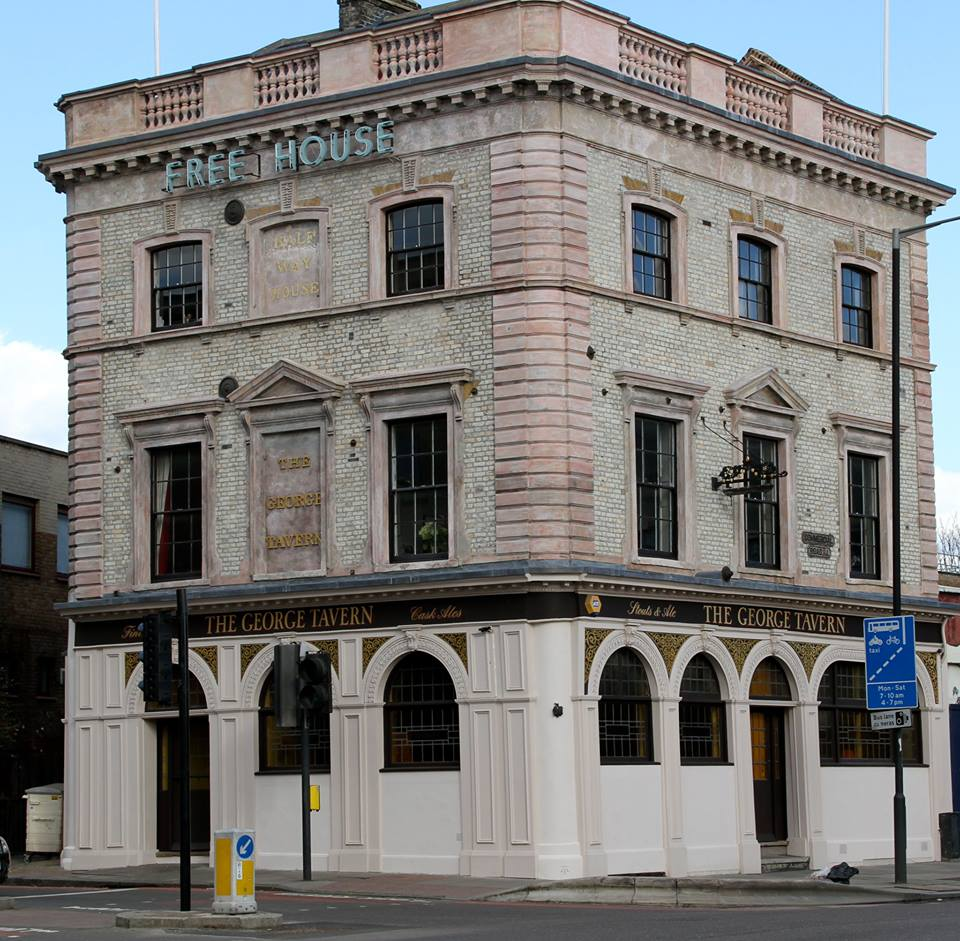 The George Tavern, music venue and historic pub.